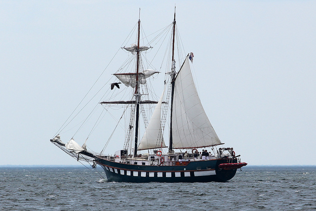 Photo of Sailing Vessel Fair Jeanne off of Amhertsview, ON, July 1, 2012